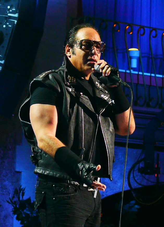 Produced by LOL Comedy Inc - Directed and Produced by Scott Montoya for the Showtime Networks - Premiere December 31 2012 - 10PM on Showtime